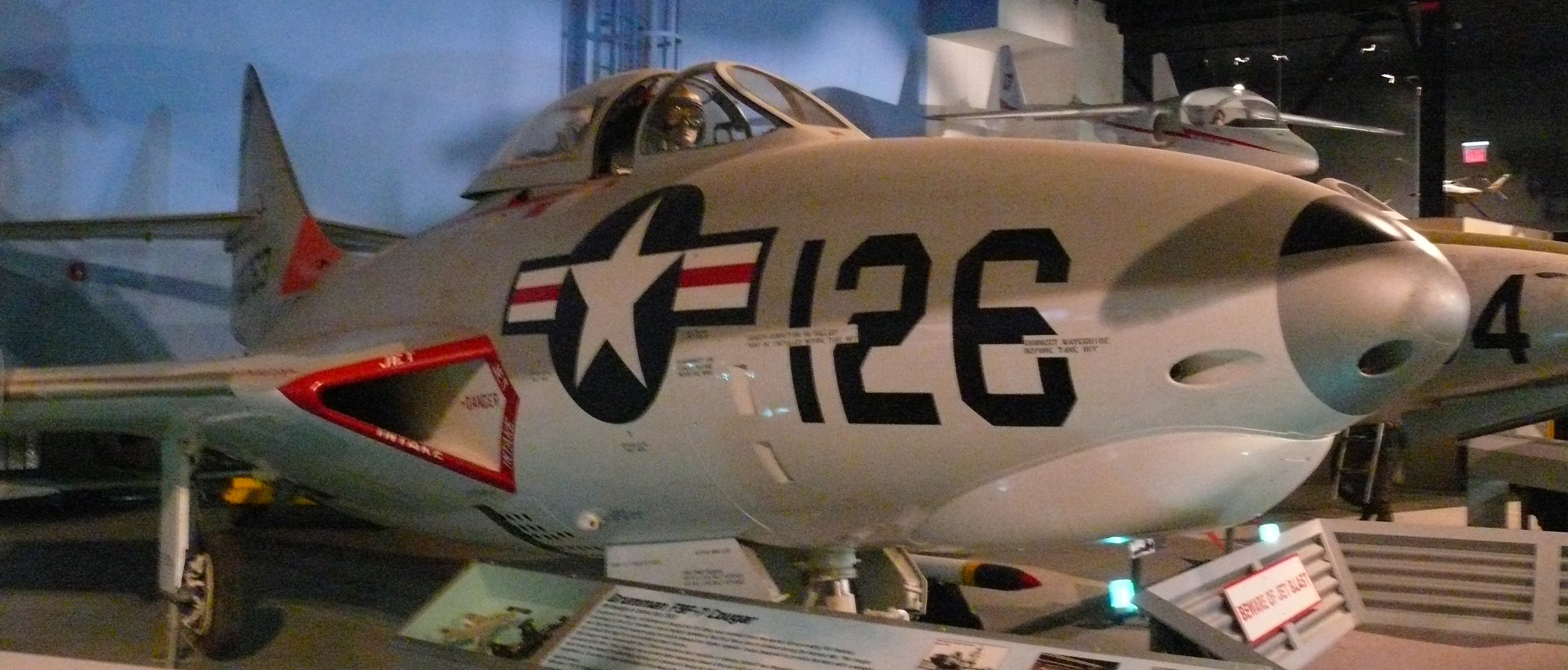 A Grumman F9F-7 Cougar (BuNo 130763) in the Cradle of Aviation Museum. The Grumman F9F/F-9 Cougar was an aircraft carrier-based fighter aircraft for the United States Navy. Based on the earlier Grumman F9F Panther, the Cougar replaced the Panther's straight wing with a more modern swept wing.